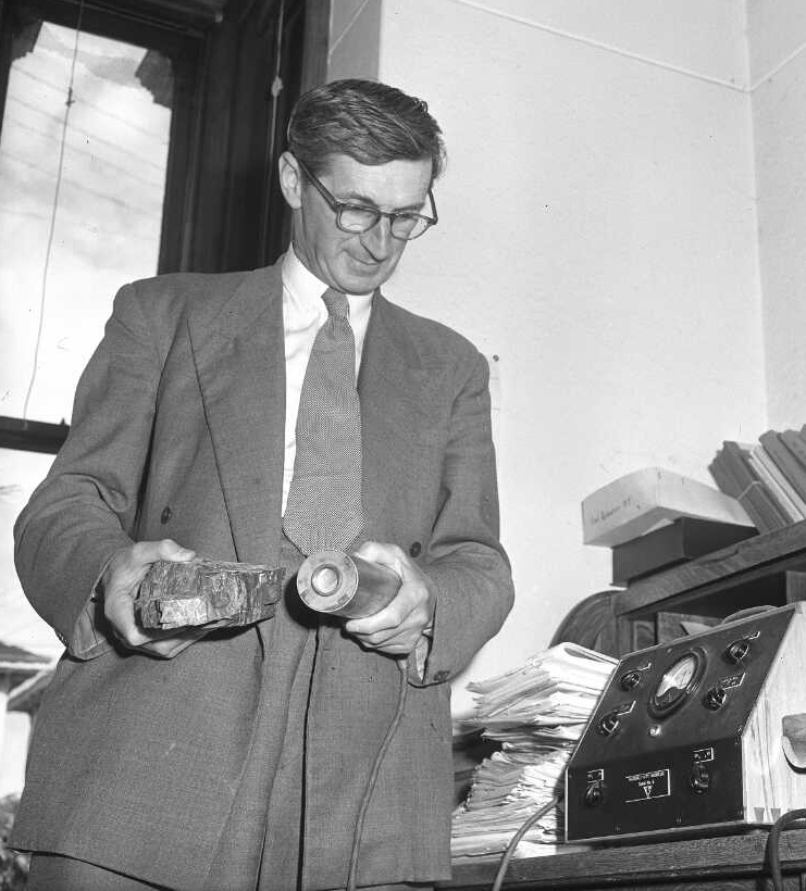 Dr Leslie Issott Grange with a geiger counter, 8 December 1954. Photographer unidentified.